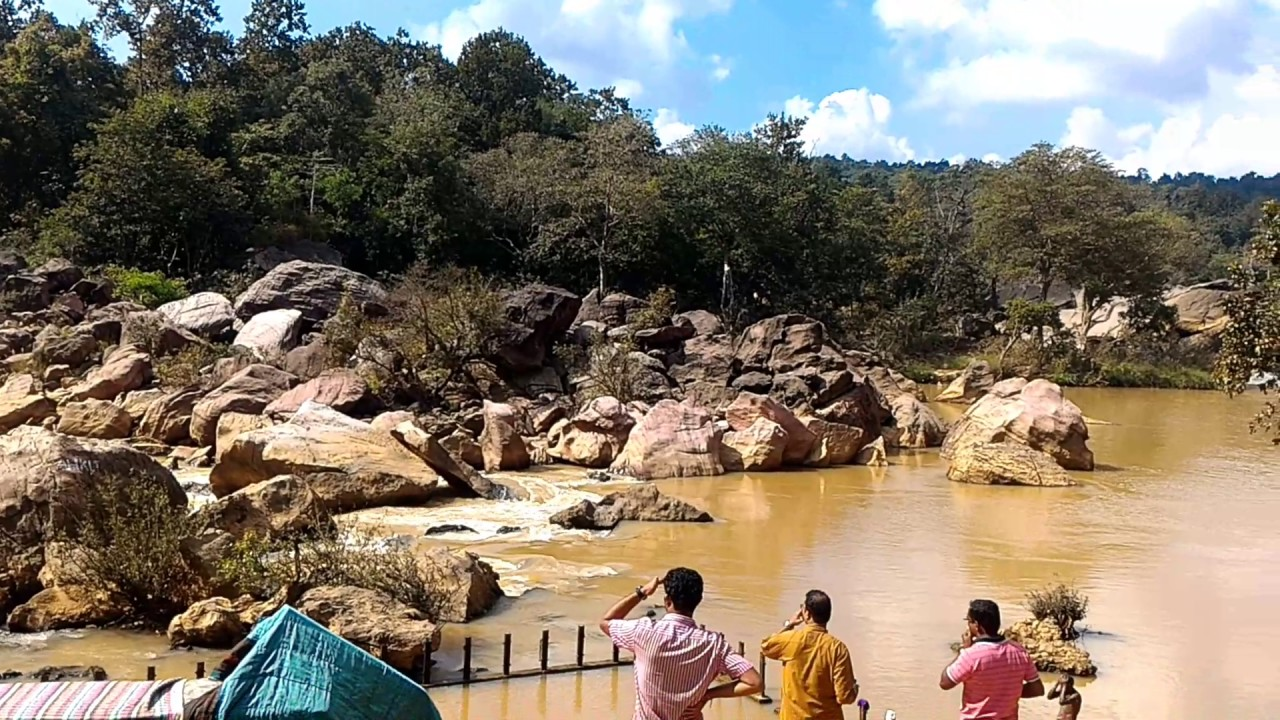 River Sabari near Gupteswara